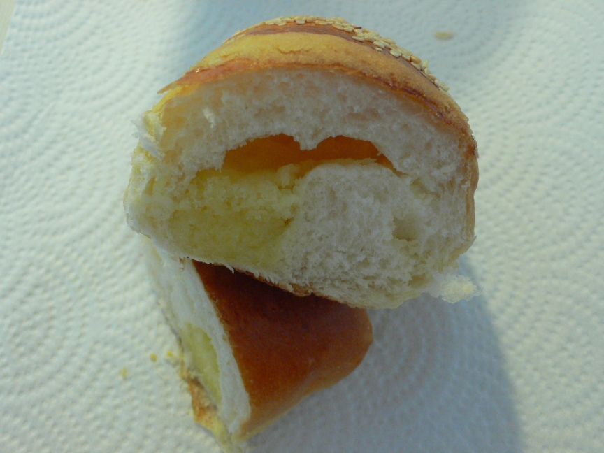 a cut-opened Cocktail Byn